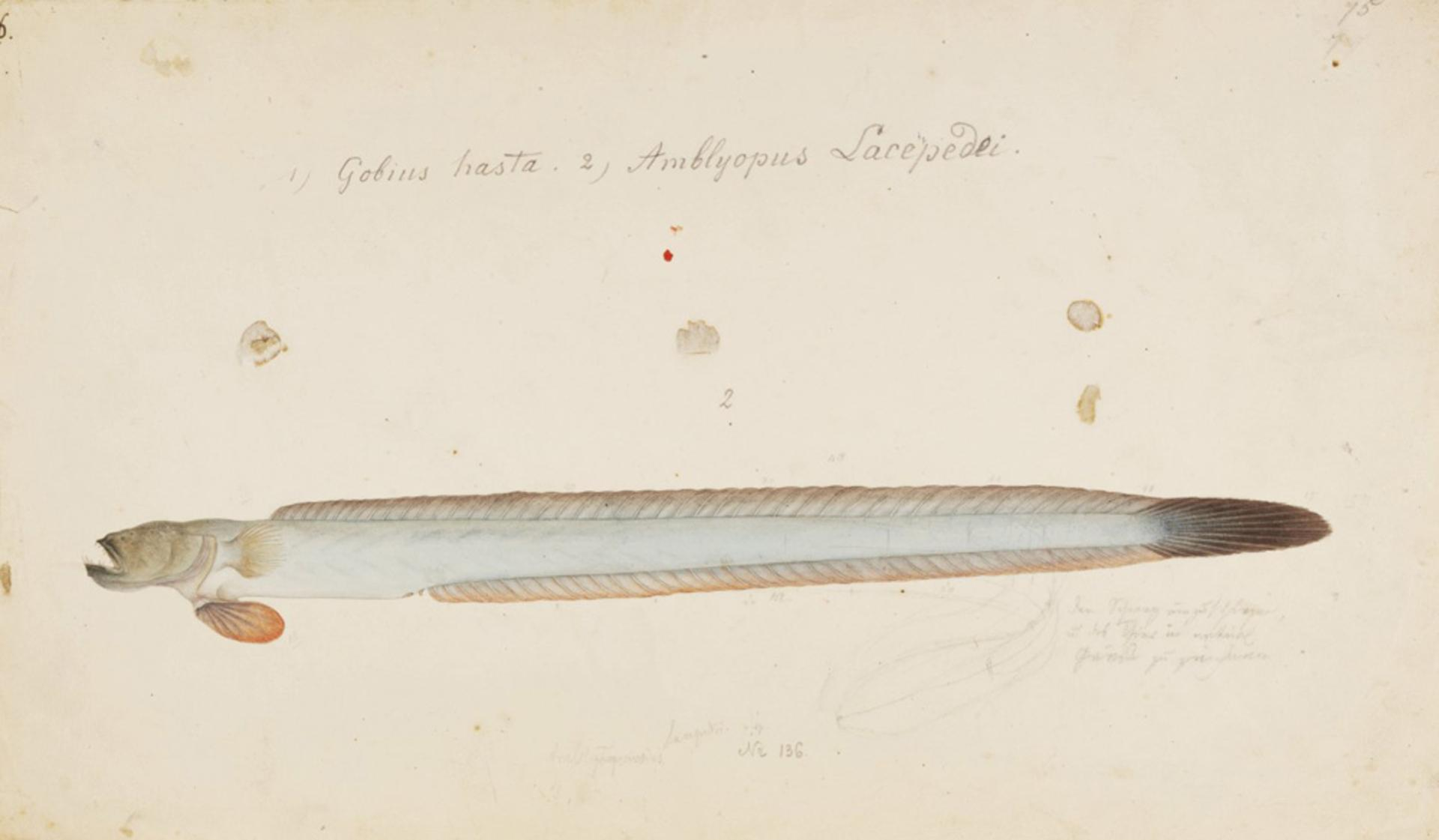 (2. pictured) Odontamblyopus lacepedii syn. Amblyopus lacepedi